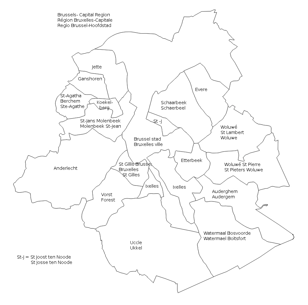 Trace of Brussels Capital region (corrected) 19 communes